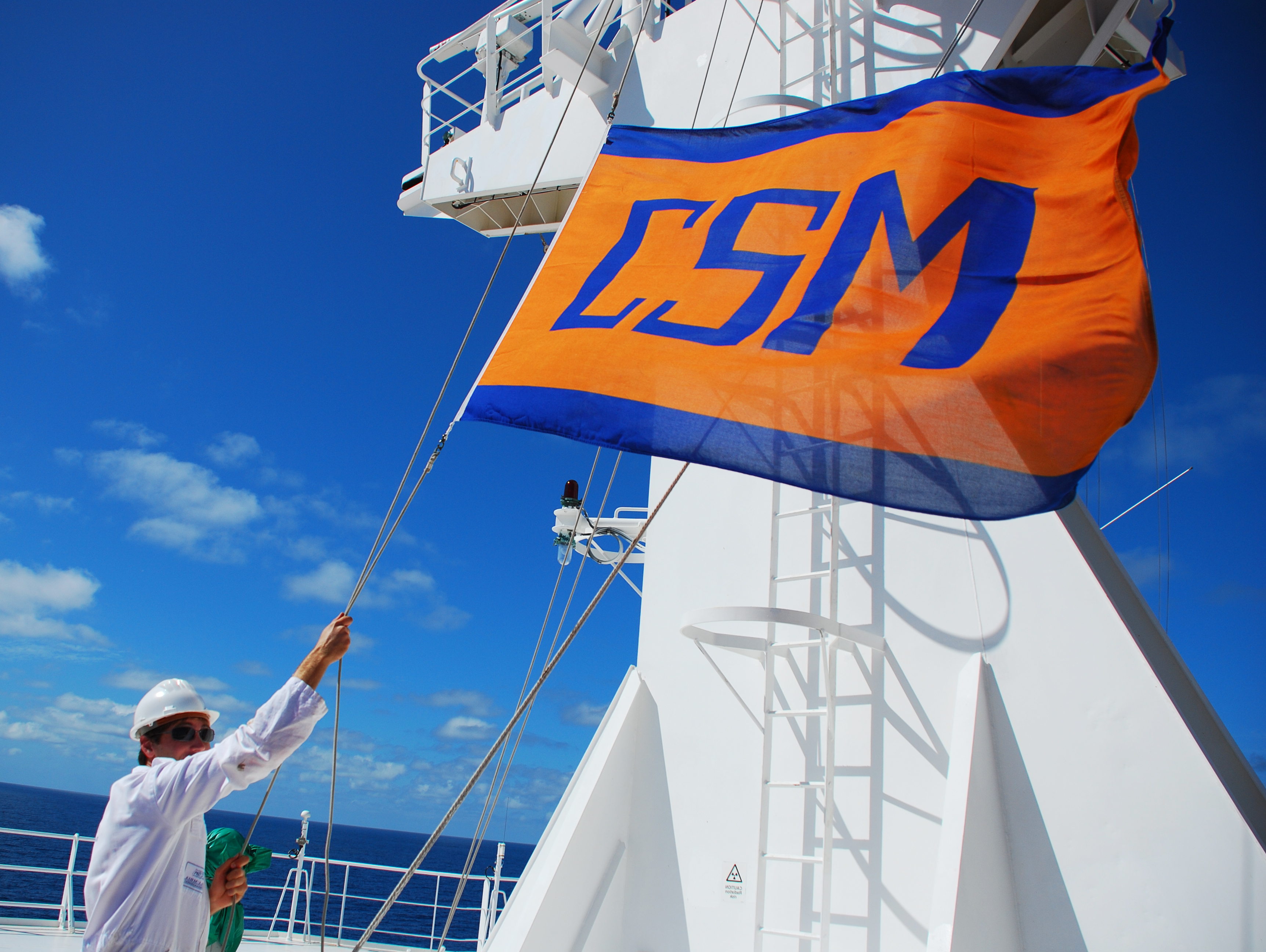 Columbia Shipmanagement's flag